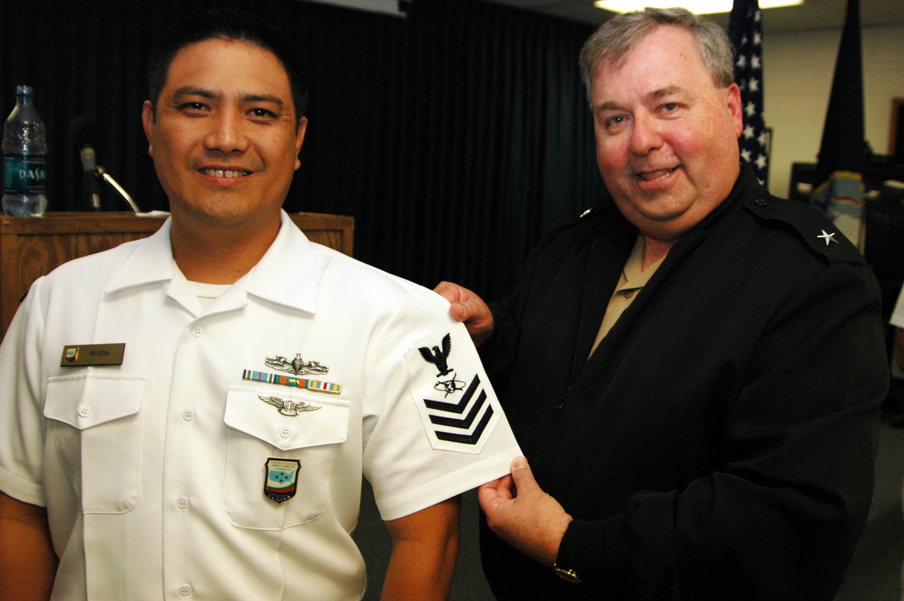 Rear. Adm. T. McCreary , right, presents the new Mass Communication Specialist (MC) rating badge, worn by Mass Communication Specialist 1st Class (SW/AW) Rustum F. Rivera. Effective July 1, 2006, the Journalist, Photographer's Mate, Illustrator Draftsman, and Lithographer ratings will merge, and be redesignated as Mass Communication Specialists. The new MC rating badge consists of a satellite orbiting a globe with four lightning bolts. The globe represents the Mass Communication Specialist's ability to accomplish the mission worldwide. The satellite and orbit signify use of the most advanced technology to transmit media products to the point of impact. The lightning bolts reflect the immediacy of the modern media environment, and the critical need for rapid dissemination of digitized video, audio, text and graphics. U.S. Navy photo by Photographer's Mate Airman Patrick Gearhiser (RELEASED)